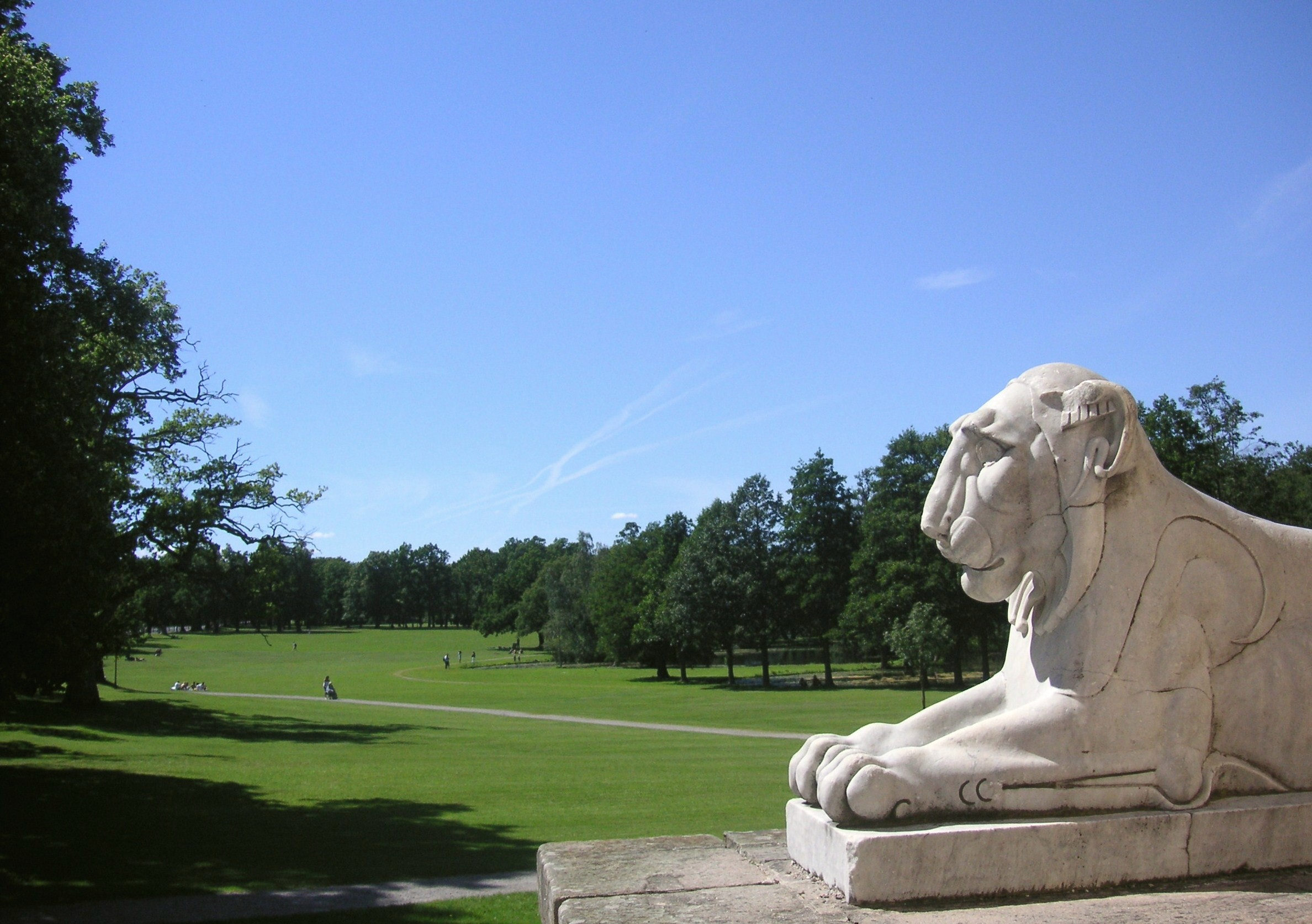 Royal Domain of Drottningholm